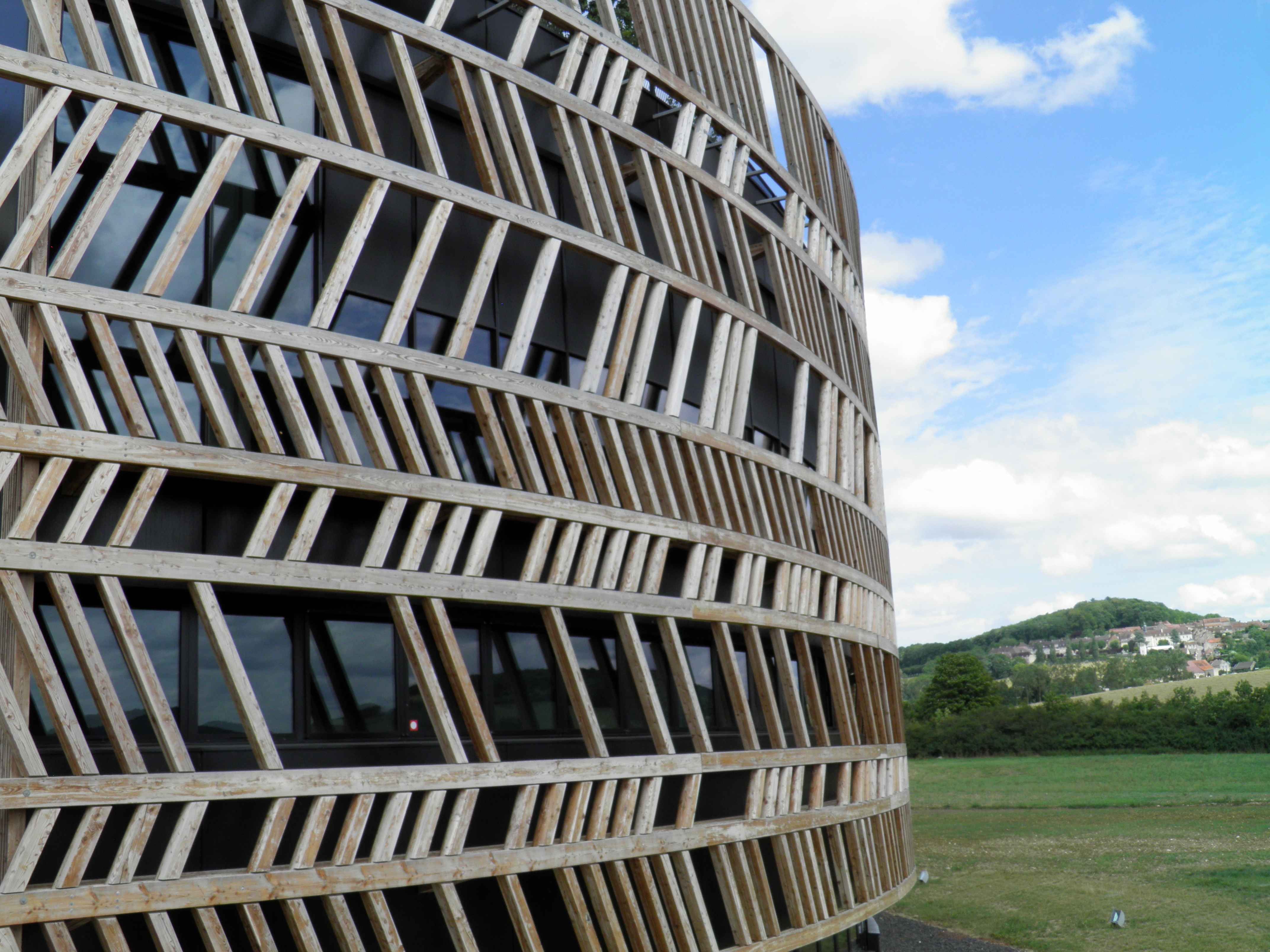 The Interpretation Centre of the Muséo Parc Alésia